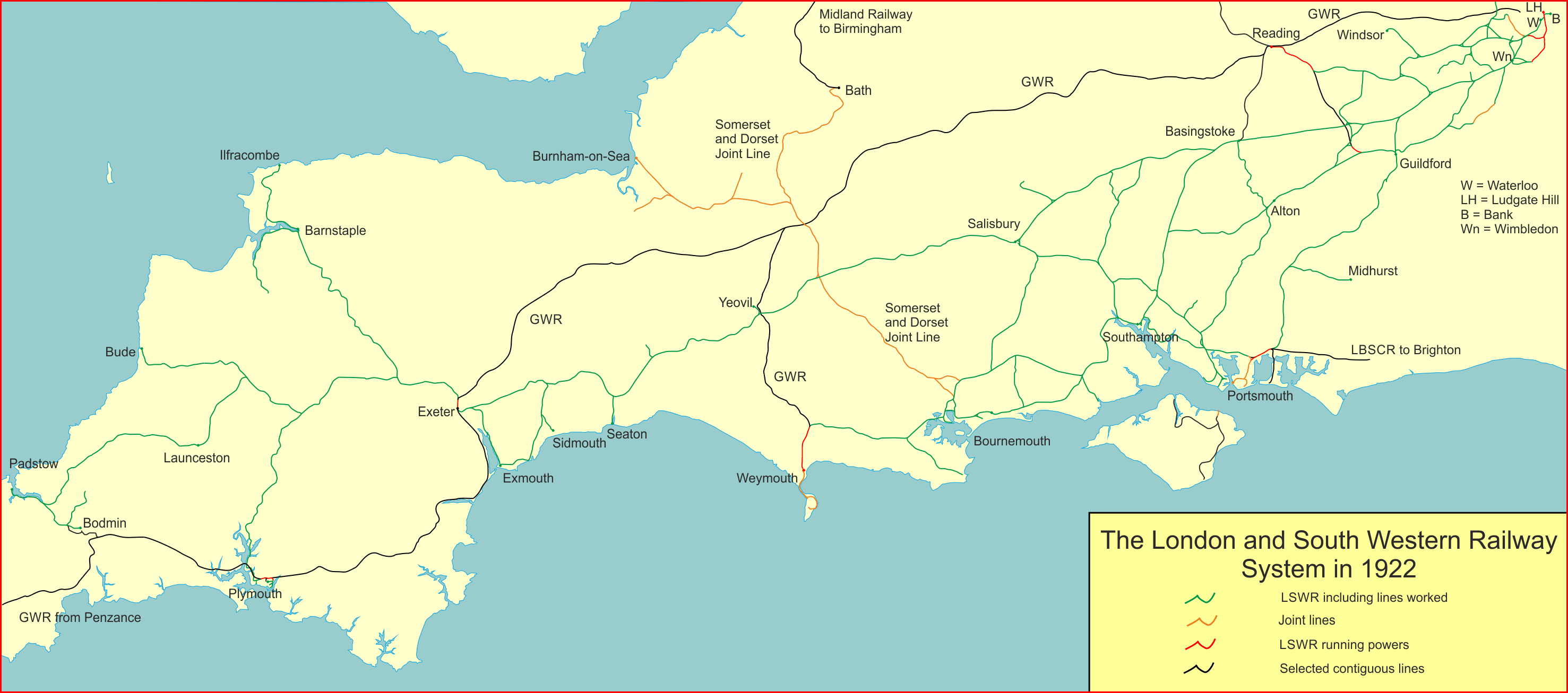 Diagram of LSWR system in 1922